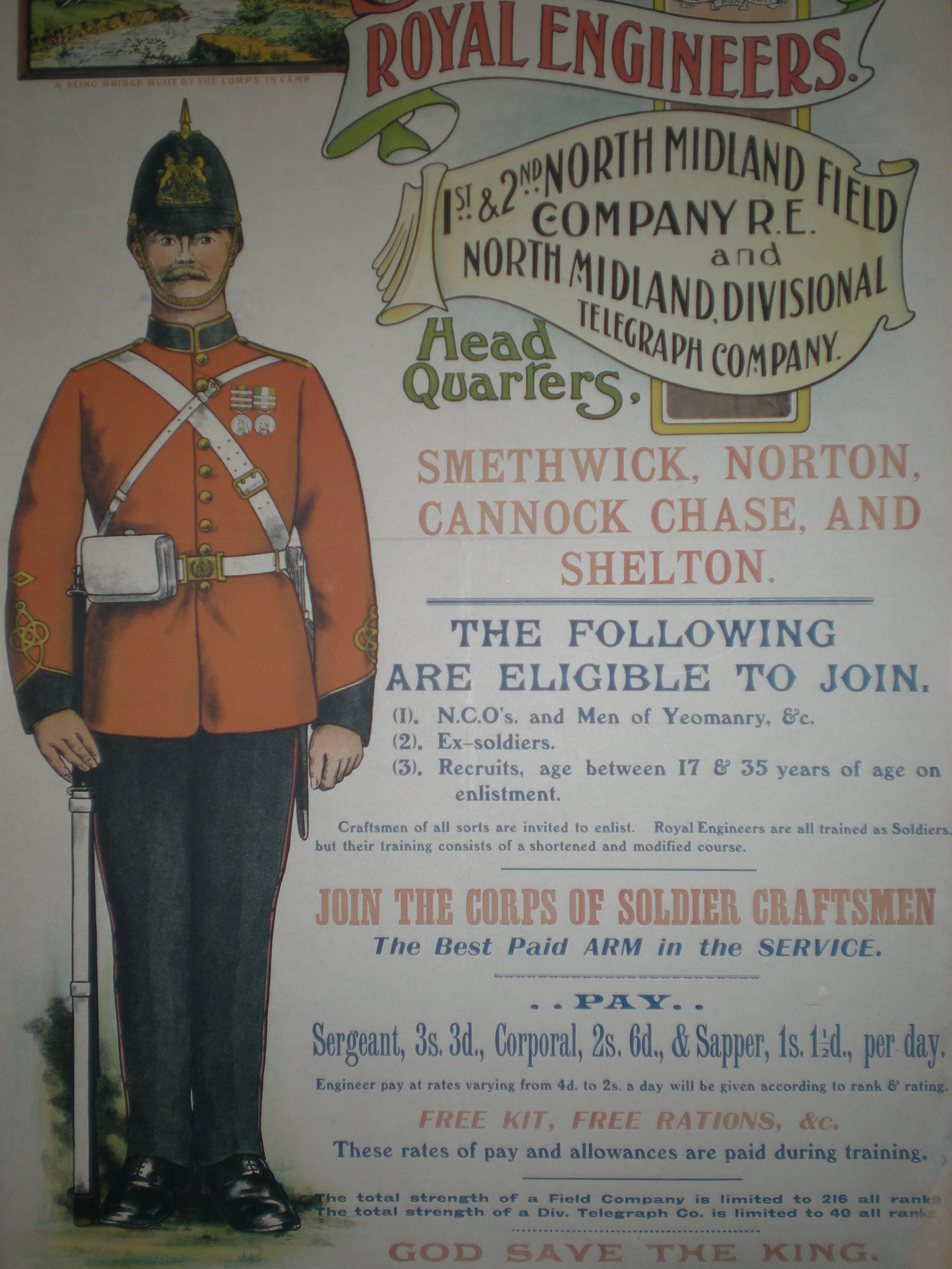 Royal Engineers recruitment poster est. 1901 or later.